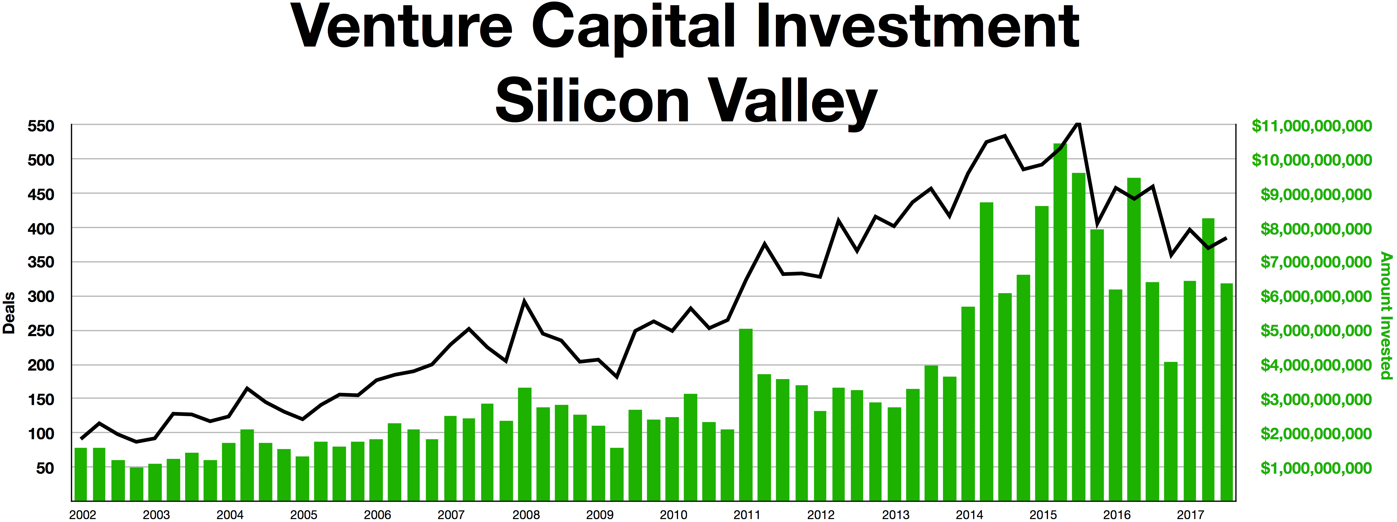 Silicon Vally Venture Capital investment